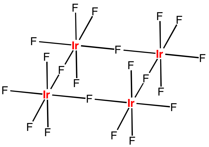 structure of Ir4F20